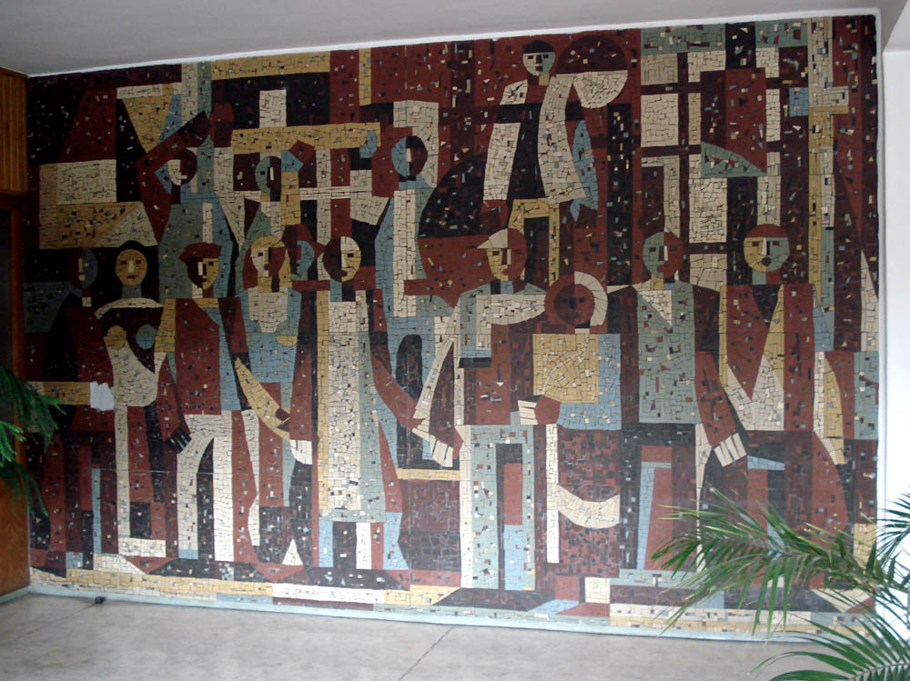 "In common", Mosaic of Imre Tóth (1929–2004), hungarian painter. Diósgyőr Machine Works, Miskolc, Hungary